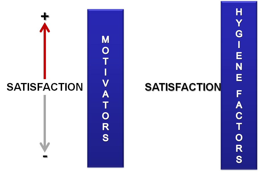 graphical overview - tow factor theory of herzberg